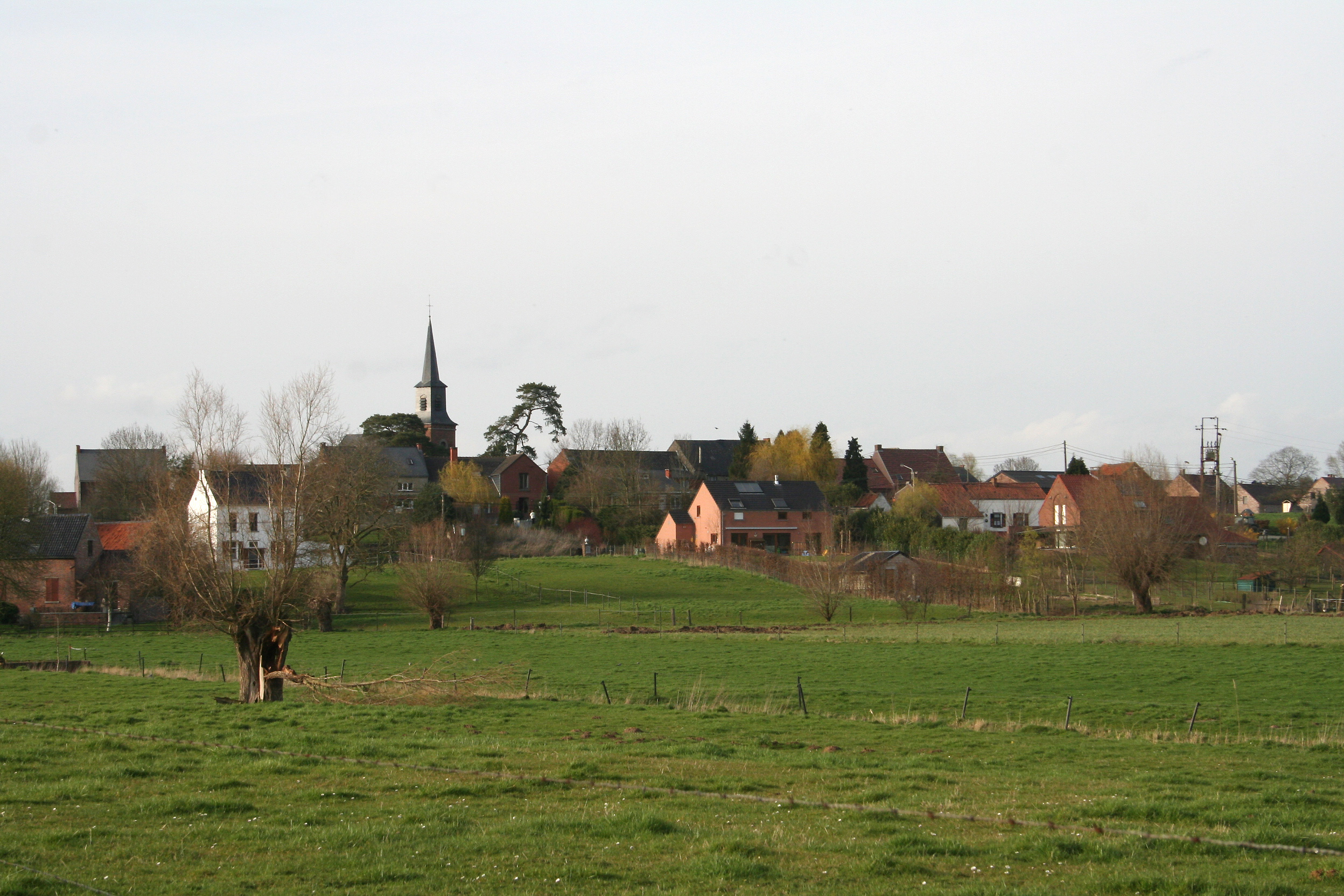 Gondregnies (Belgium), the town viewed from the rue de la Dendrelette.